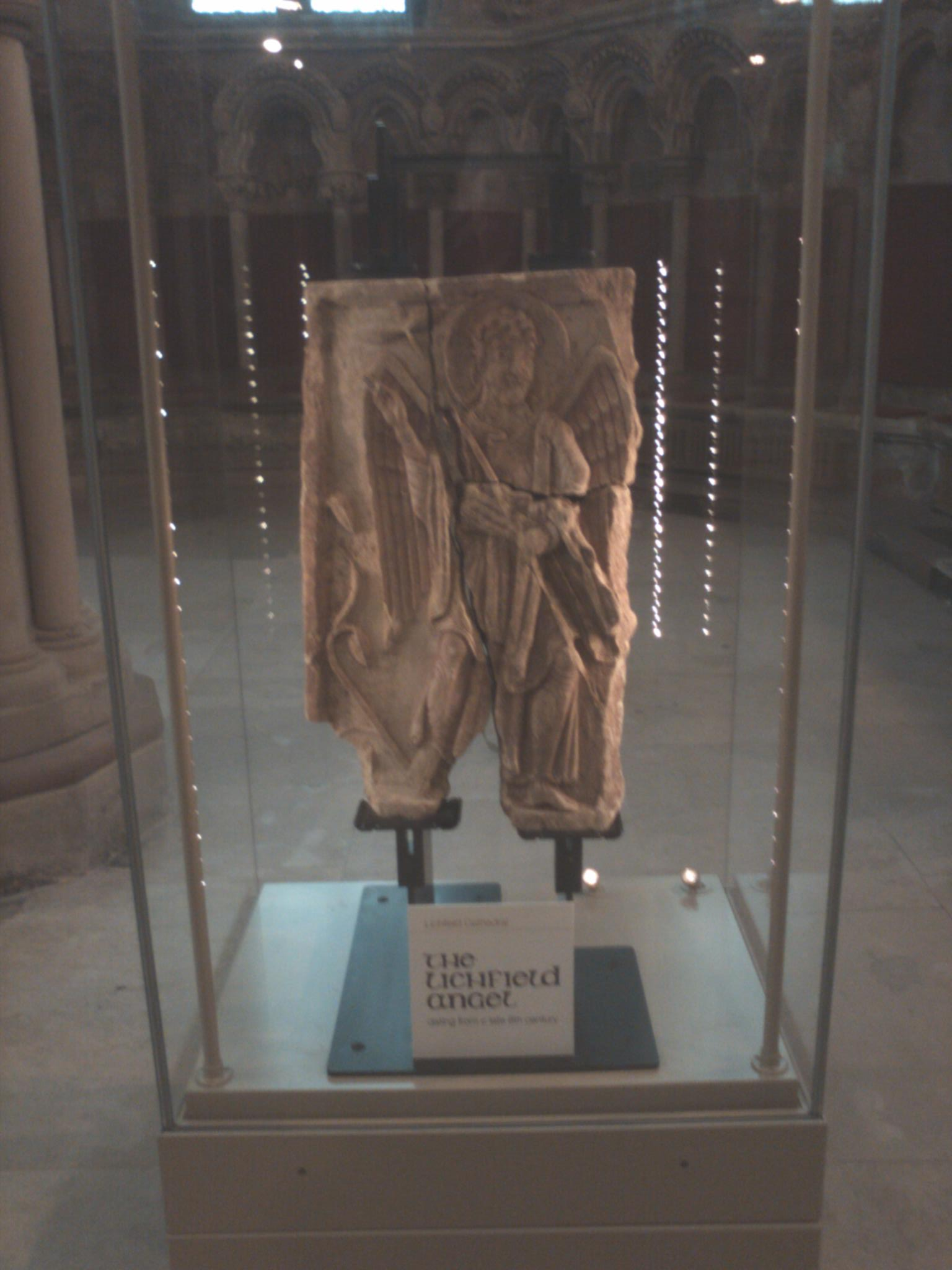 The Lichfield Angel:eighth century stone carving, from Lichfield Cathedral